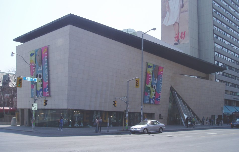 Bata Shoe Museum